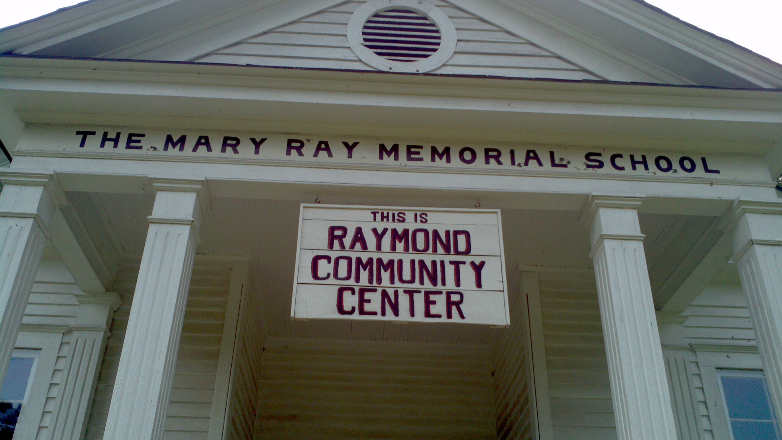 A closeup of the front of Raymond Community Center, formerly Mary Ray Memorial School, on Raymond Sheddan Avenue in Raymond, Georgia.